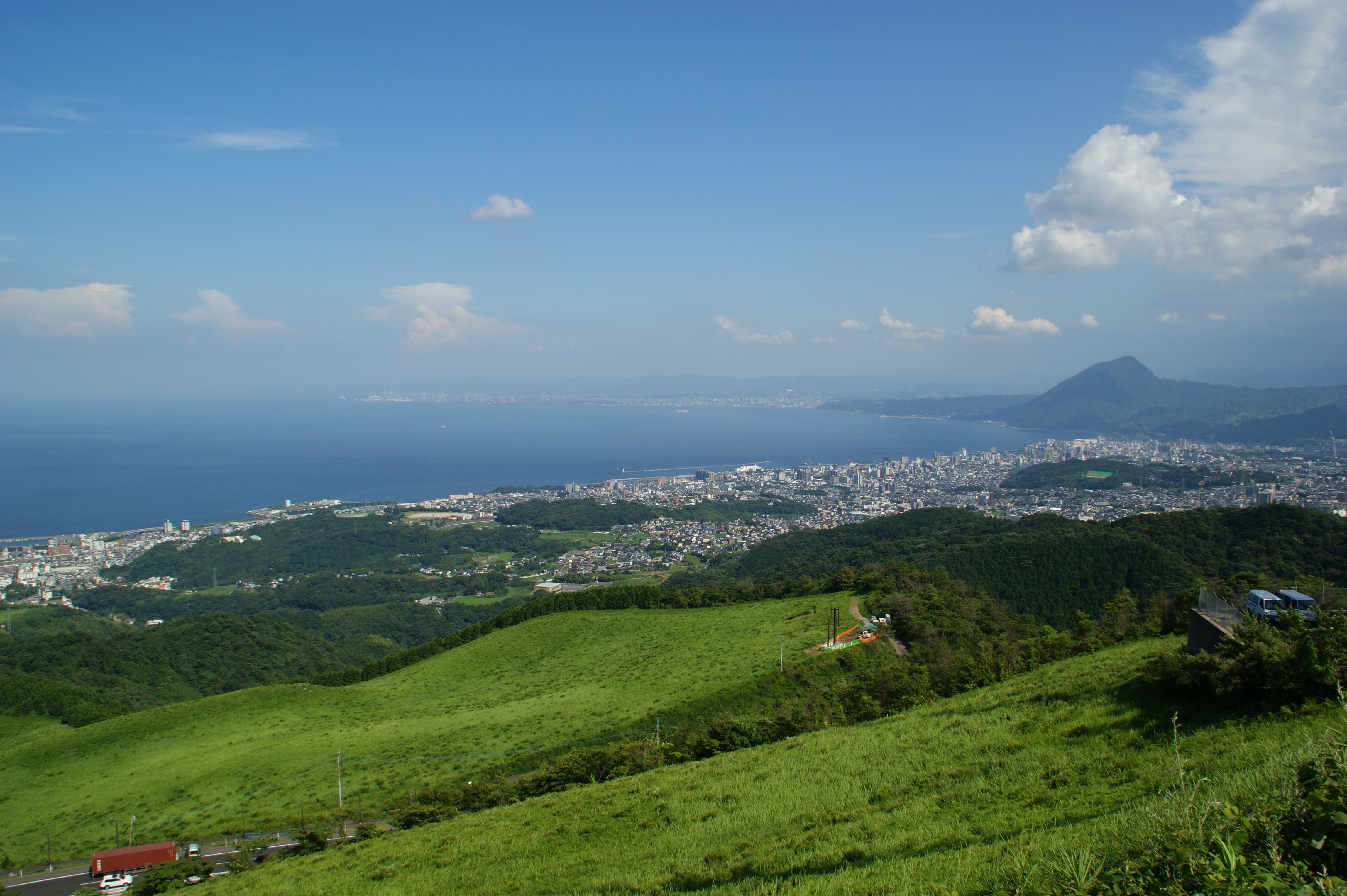 View from Jumonjibaru.(Beppu City, Oita Prefecture, Japan)